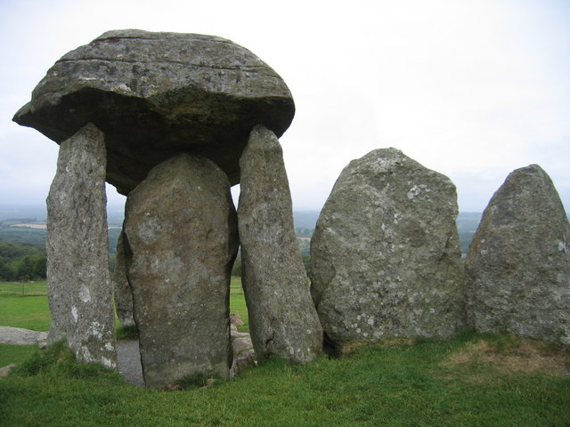 Pentre Ifan dolmen Built by giants to bury their dead !